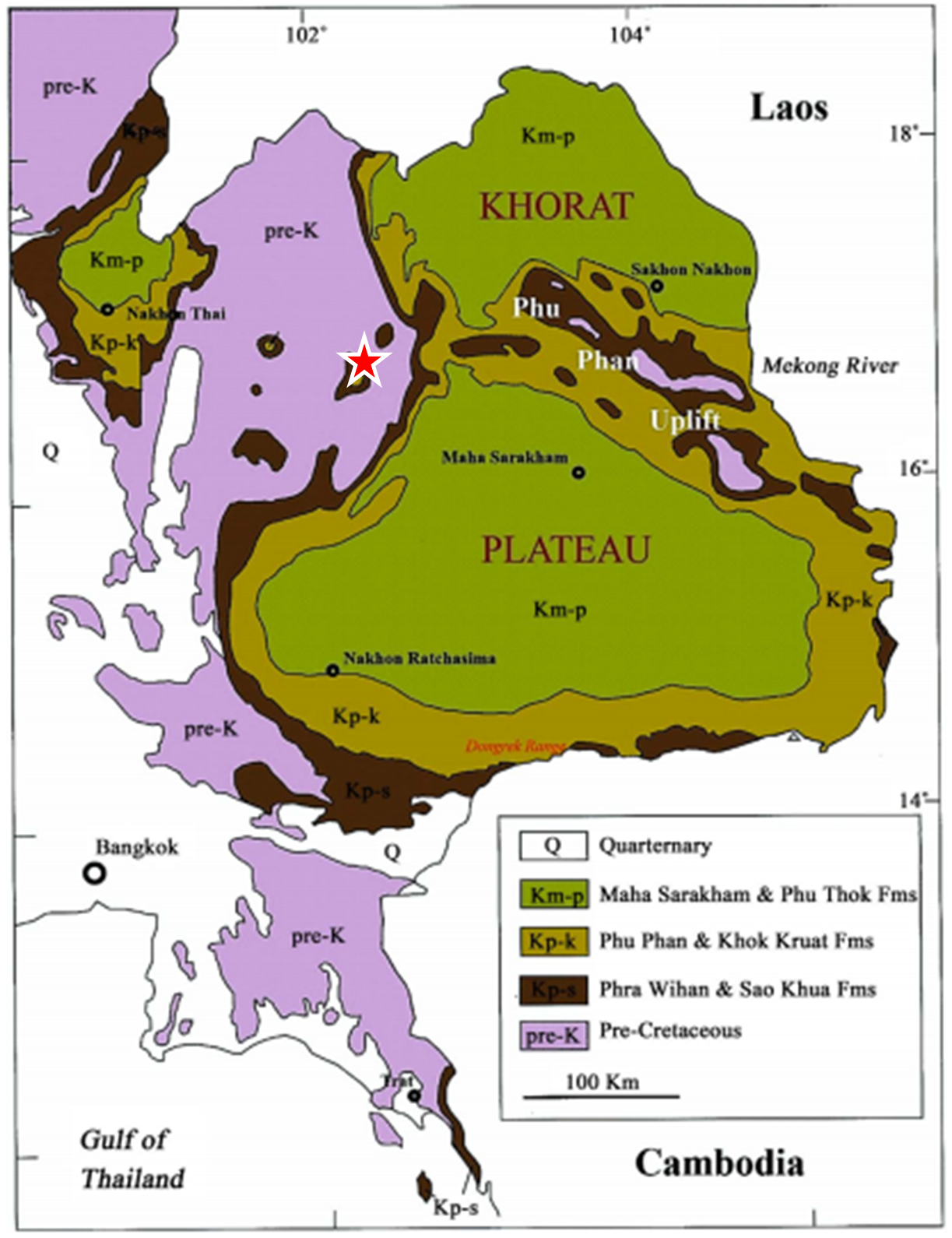 Map of northeast & southeastern Thailand showing the distribution of Cretaceous geological strata, the pre-Cretaceous rocks possibly being Jurassic or Jurassic-Cretaceous in age. (Marked with a star on the Phu Wiang district)